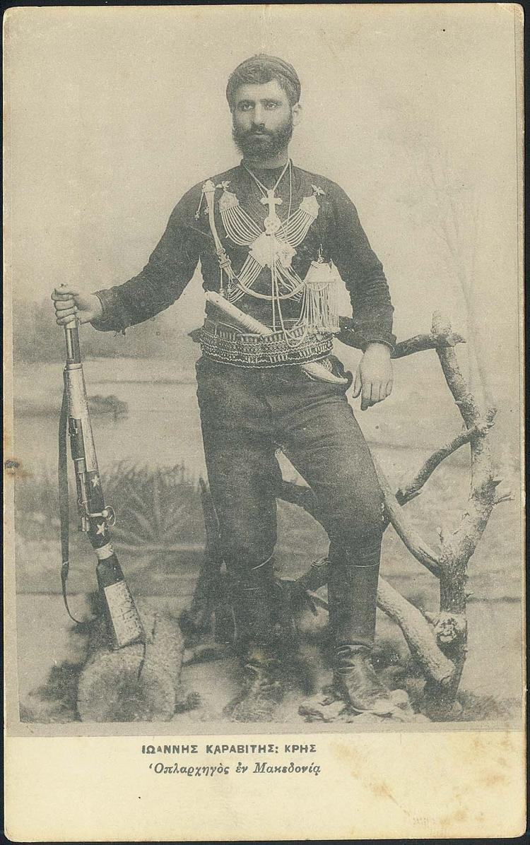 Greek andart captain Ionnis Karavitis